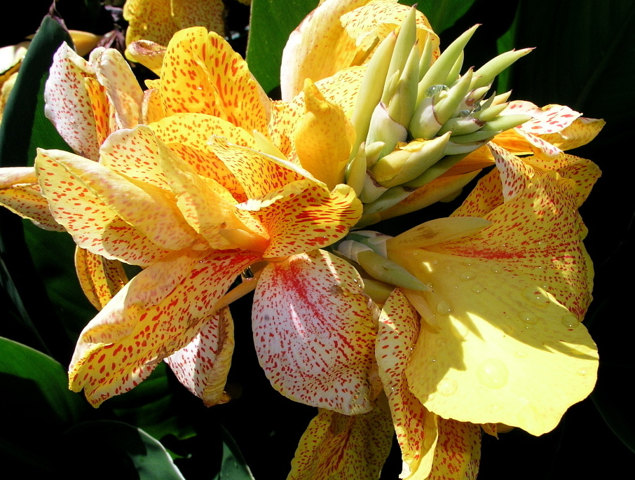 Canna in Auckland (New Zealand)